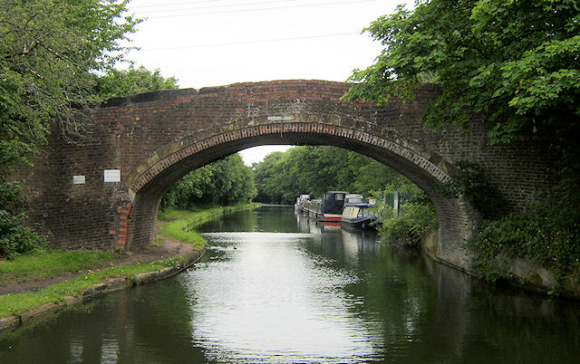 Photograph of Pickering's Bridge, Bridgewater Canal, near Thelwall, Cheshire, England